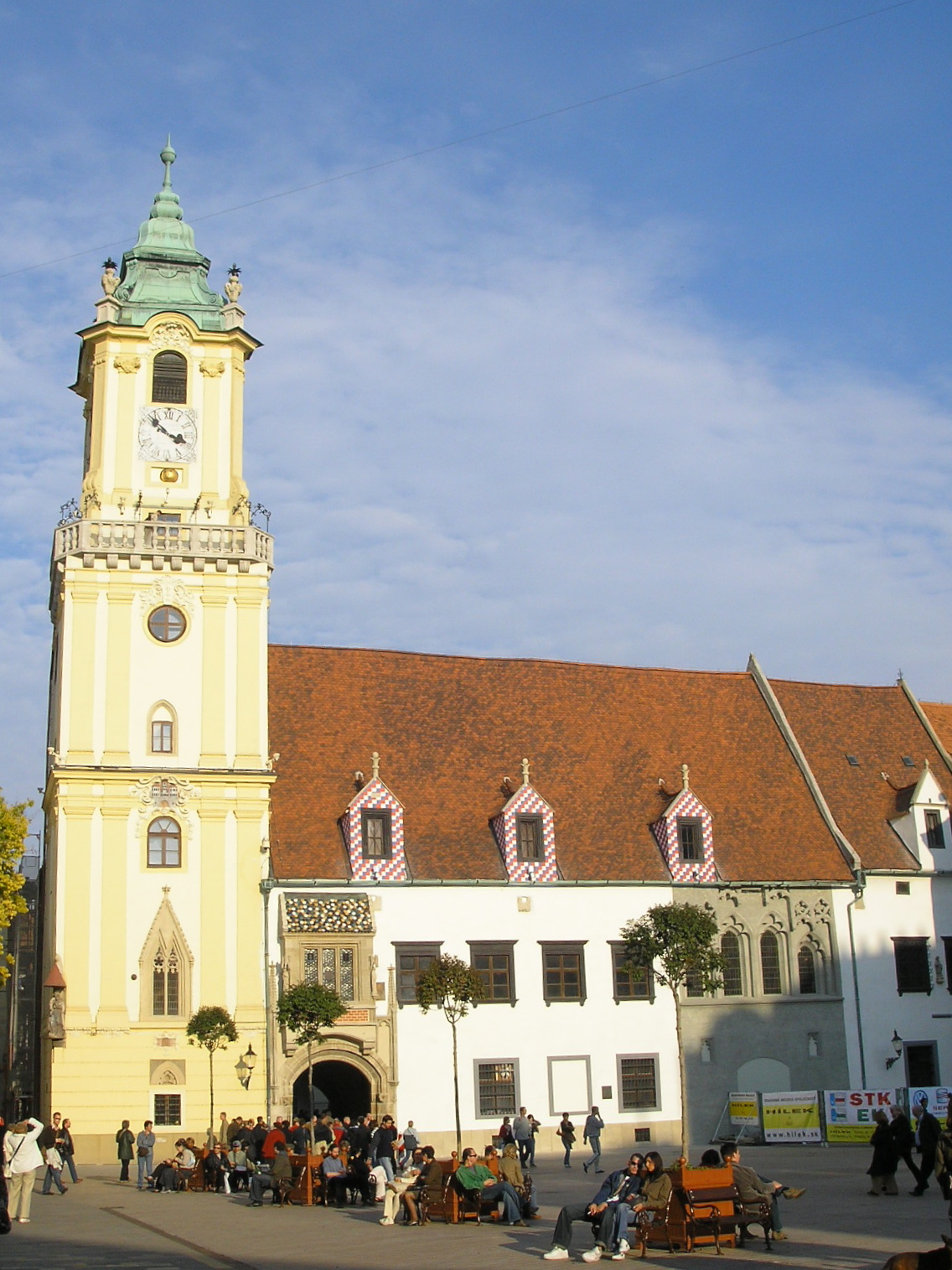 Image of the Old Towne Hall (Stará radnica) in Bratislava, at the old town square.